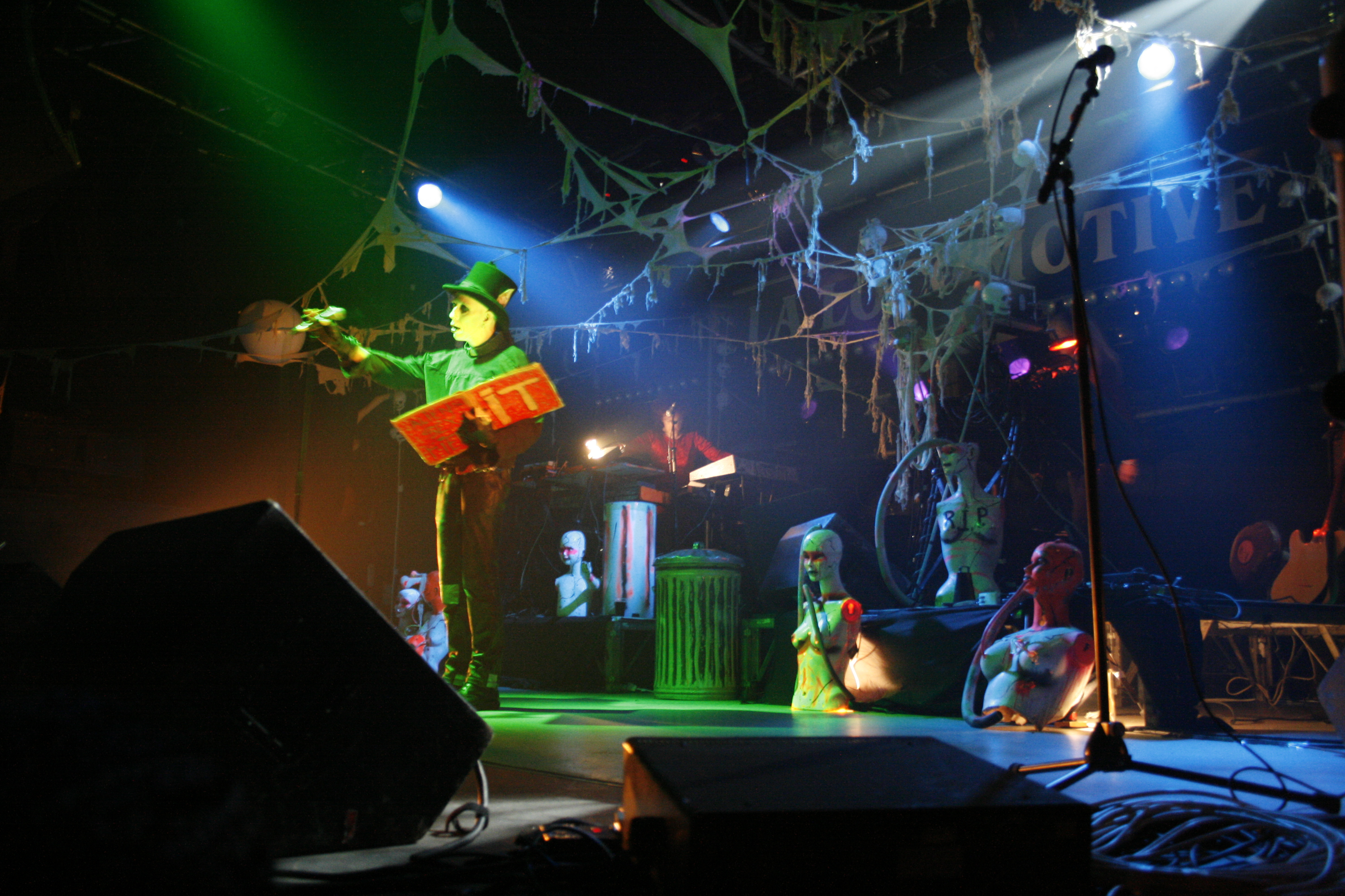 Alien Sex Fiend live in Paris at "la Loco"